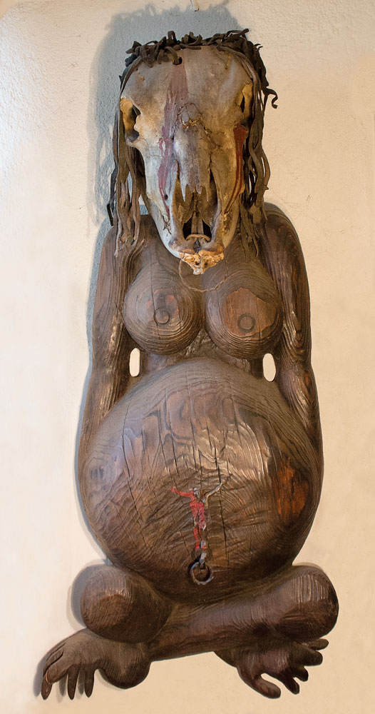 Lubo Kristek: Expecting, 1969, assemblage, 130 × 60 cm